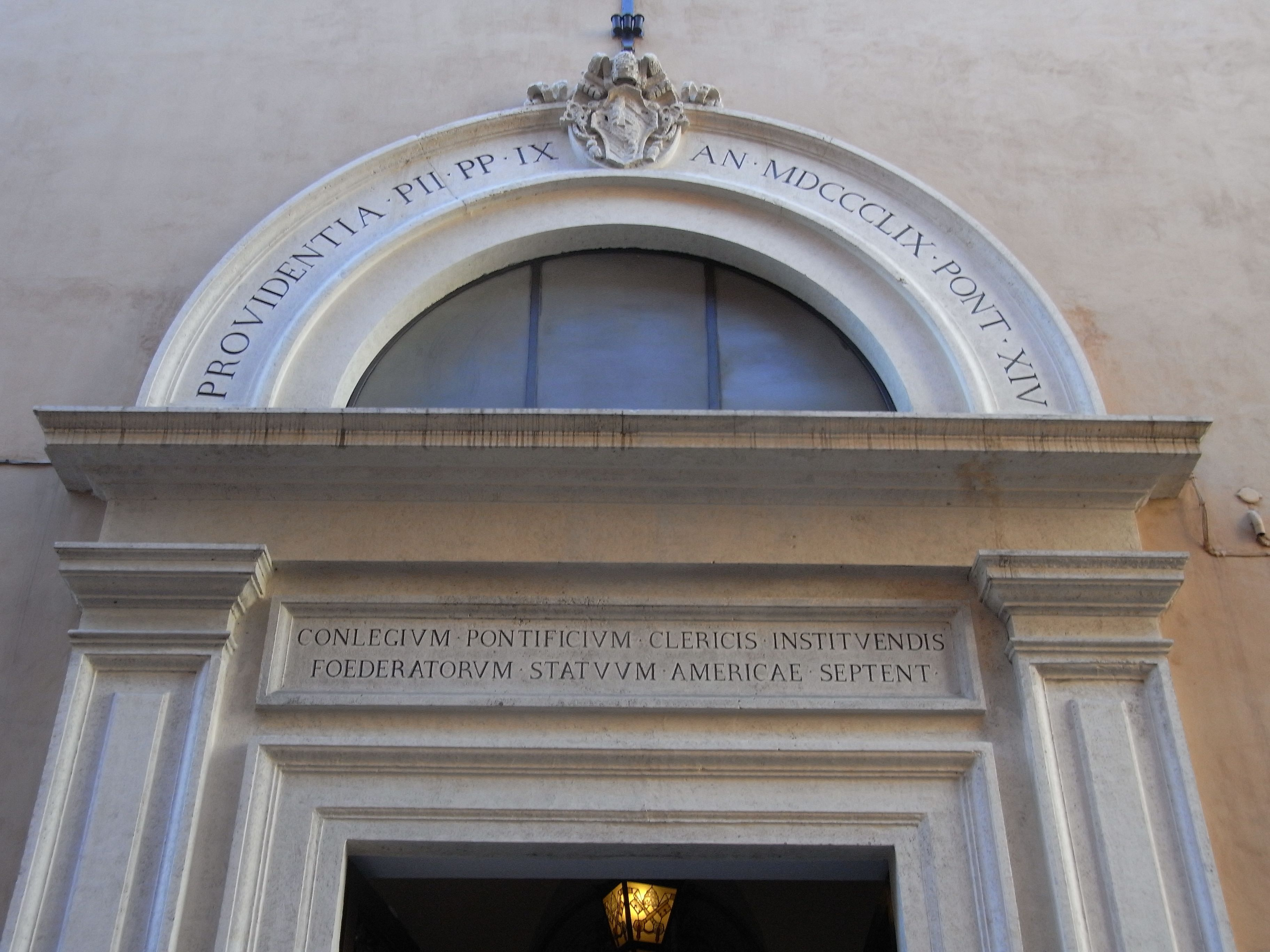 Latin inscription in Rome of pope Pius IX "pontificial college for clerics to be instituted of the USA" 1859